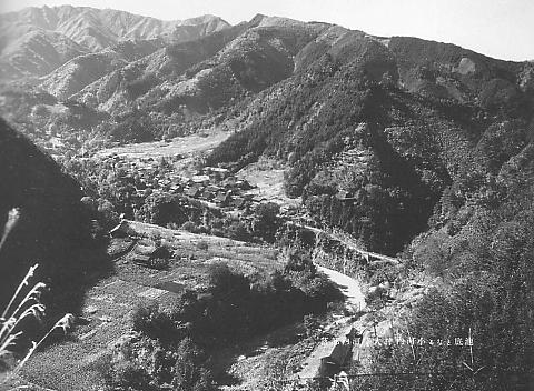 Ogouchi Village